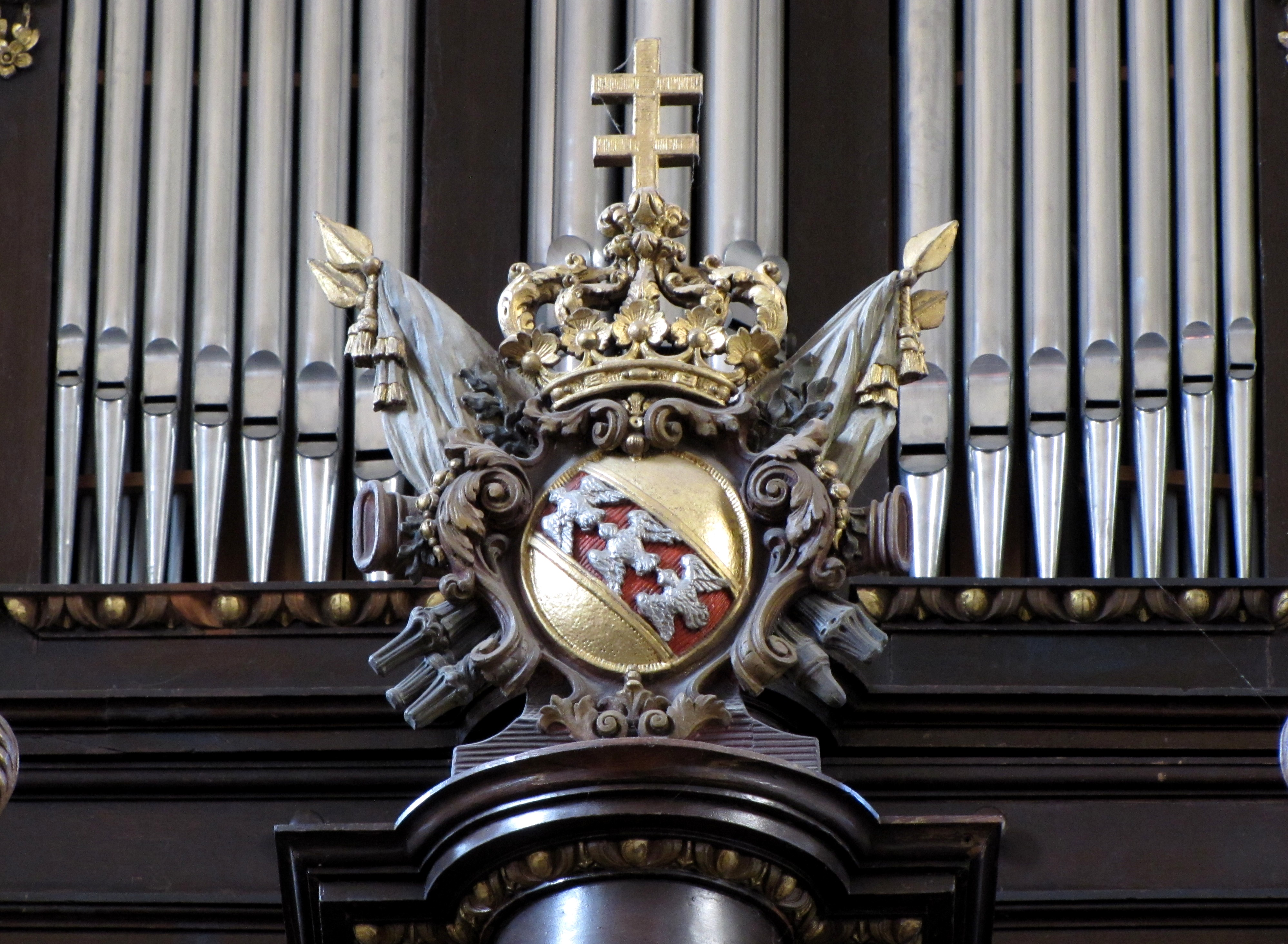 Alsace, Bas-Rhin, Sarre-Union, Église Saint-Georges (IA67005911). Orgue Delorme-Martersteck (1717): This object is classé Monument Historique in the base Palissy, database of the French furniture patrimony of the French ministry of culture, under the references PM67001082, IM67009246 and buffet PM67000267 buffet.